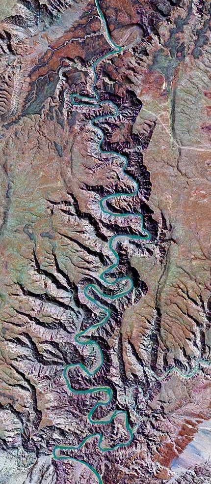 Fish River Canyon and Huns mountains, Namibia